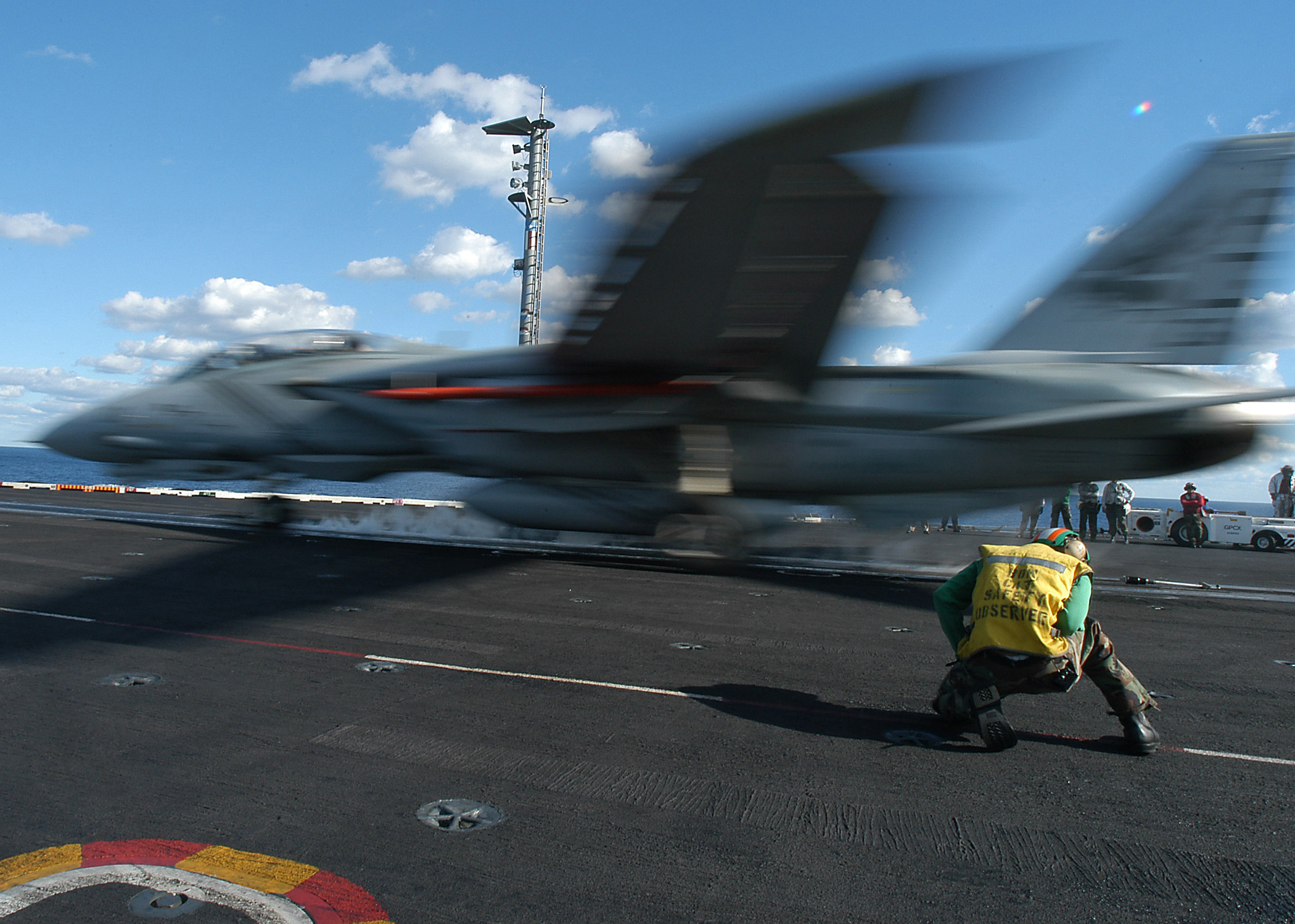 At sea aboard USS George Washington (CVN 73) Nov. 21, 2003. -- Flight Deck Safety Observer, Aviation Boatswain’s Mate 3rd Class Harrison Brookes from Virginia Beach, Va., braces himself as an F-14B Tomcat, assigned to Carrier Air Wing Seven (CVW-7) is launched from one of four steam driven catapults on the ship’s flight deck. Washington is conducting Composite Training Unit Exercise (COMPTUEX) in the Atlantic Ocean. U.S. Navy photo by Photographer’s Mate Airman Jessica Davis. (RELEASED)